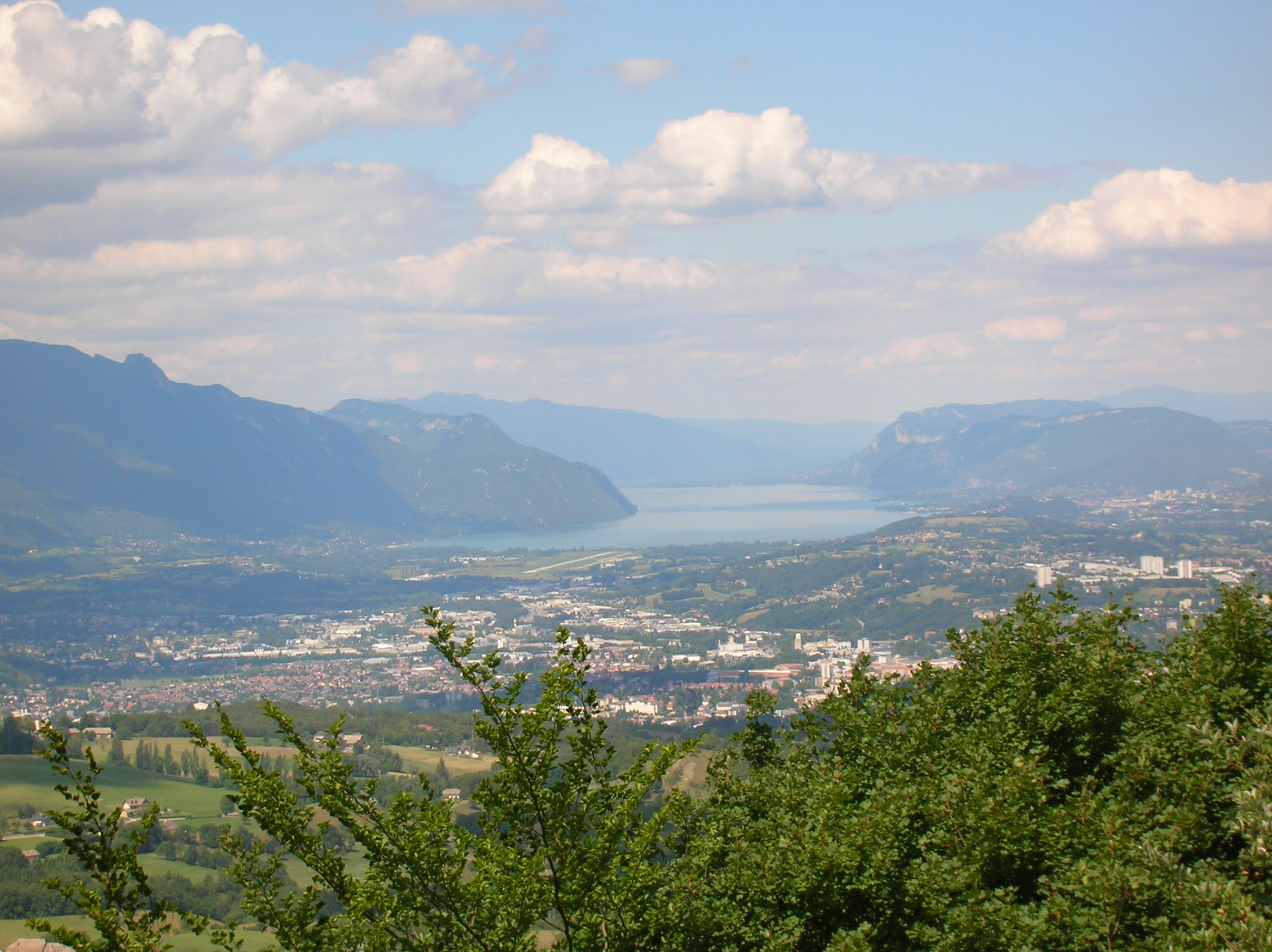 Landscape of Chambéry and Lake of Bourget in Savoy (French Alps)